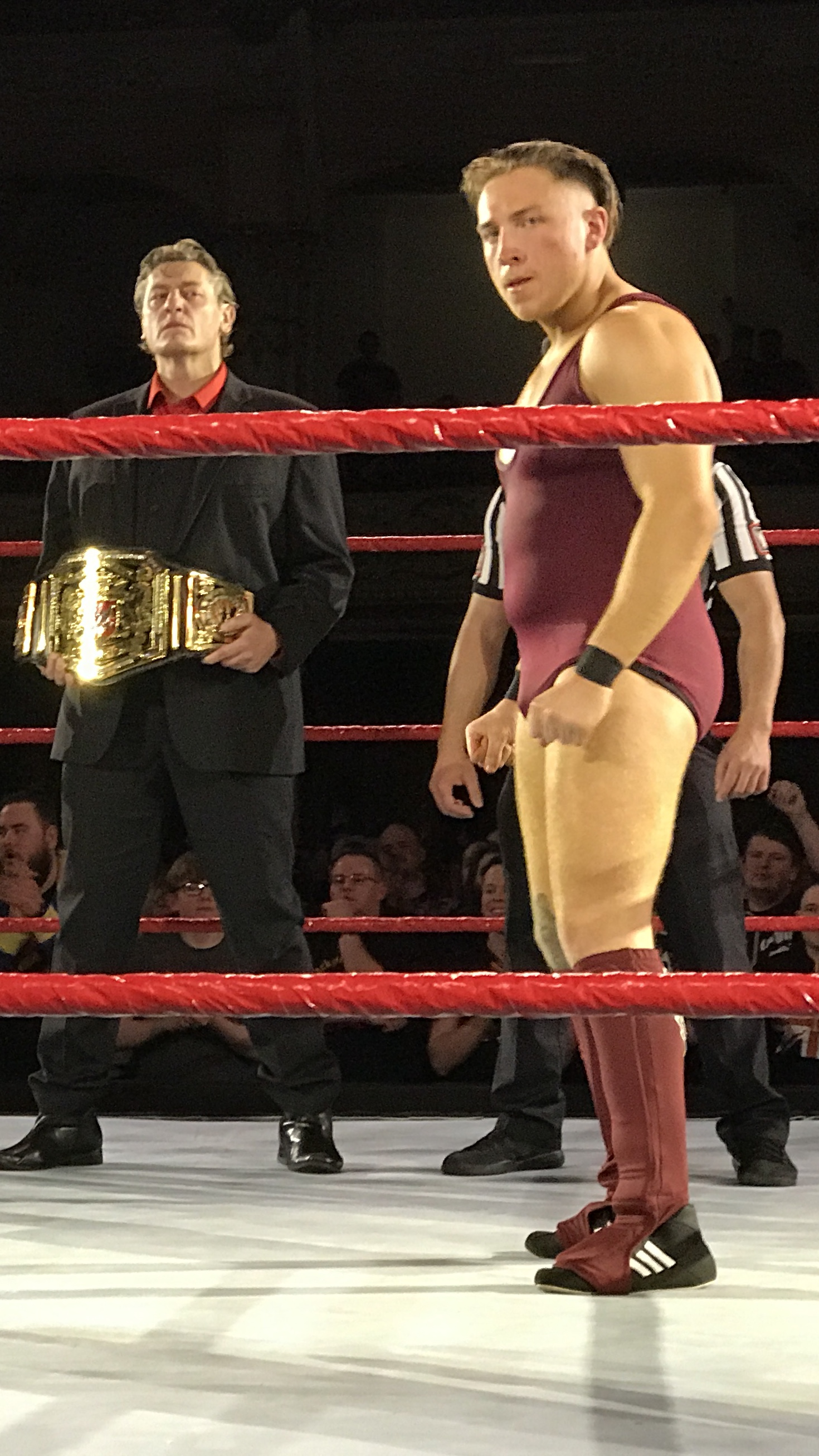 Pete Dunne awaits his introduction at the WWE UK Championship Tournament in Blackpool, England.